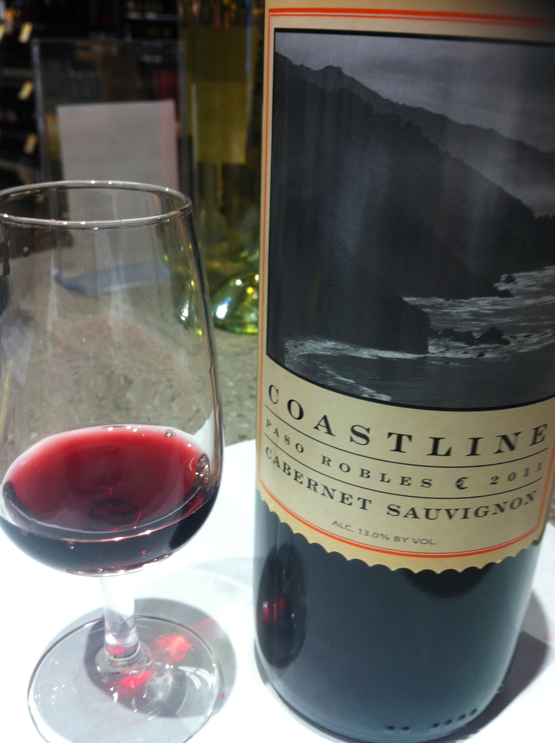 California Cabernet Sauvignon from the Paso Robles AVA of the Central Coast